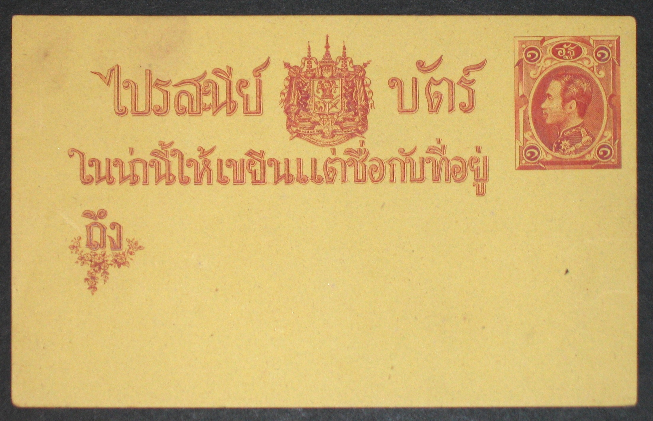 Thai Postal Card First Issue. 1 Att. Issued date 4 August 1883.